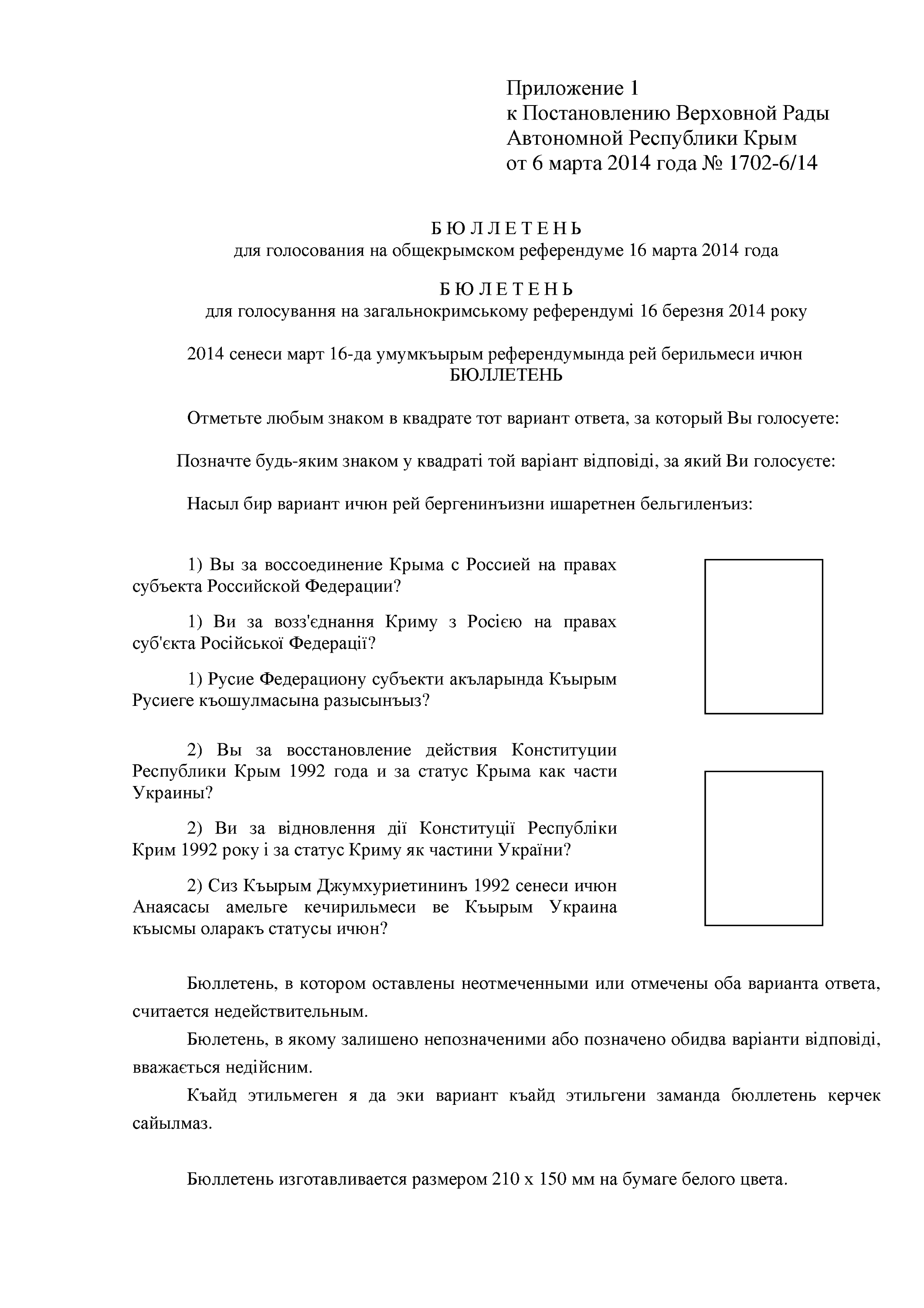 A ballot paper sample for the 2014 Crimean referendum.